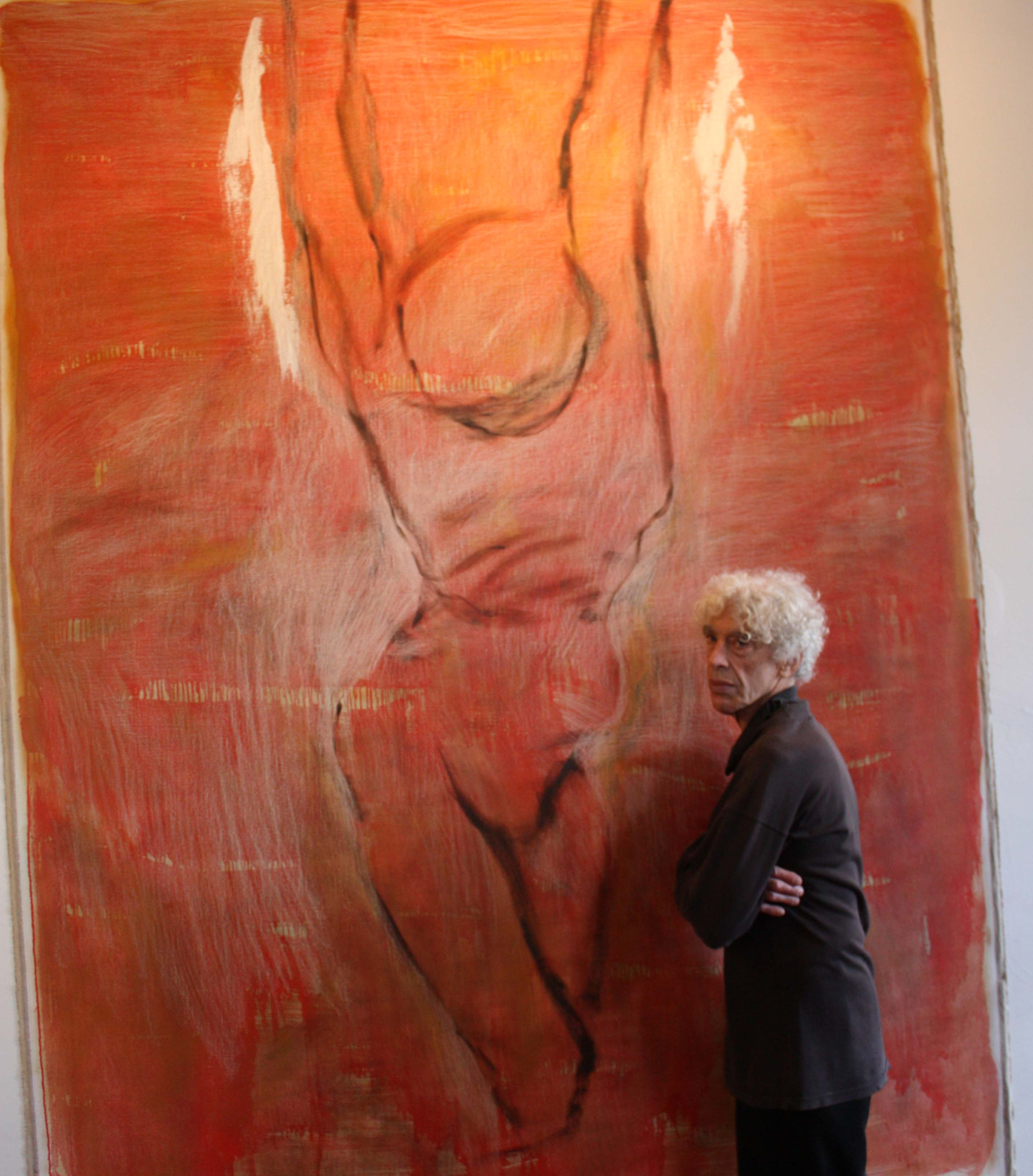 2010 - Lightning on Sinai with Artist - Photo River Gibeaut (2011)